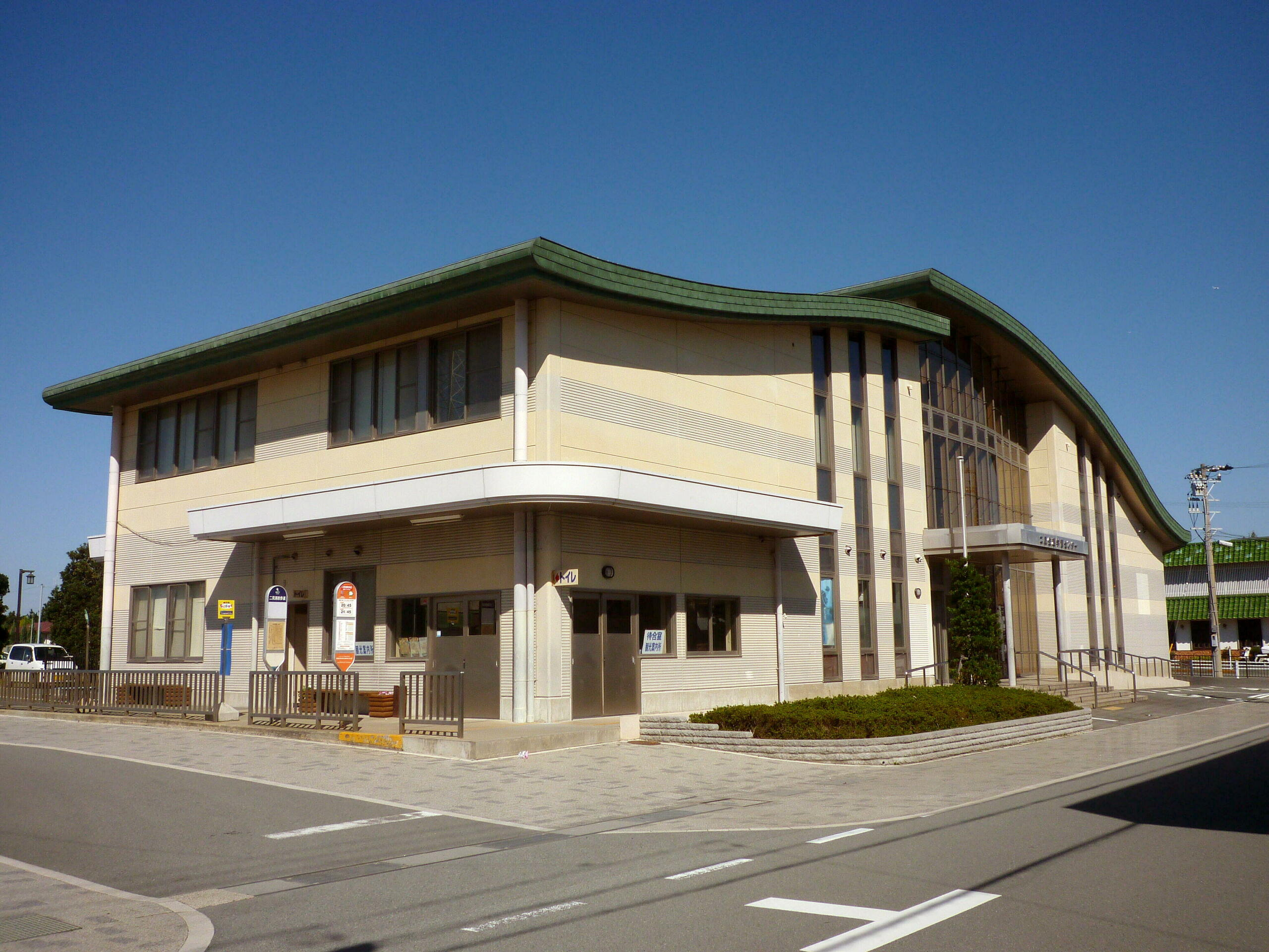 Ise-shi shogai gakushu centre (Ise City Futami Lifelong Learning Centre) and Futamiura-omotesando Bus Stop in Futamicho Chaya, Ise City, Mie Prefecture, Japan